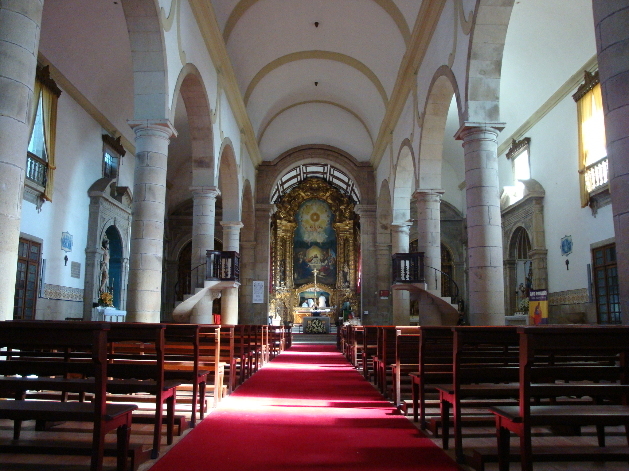 This file was uploaded for Wiki Loves Monuments in Portugal with the unique identifier 74015.